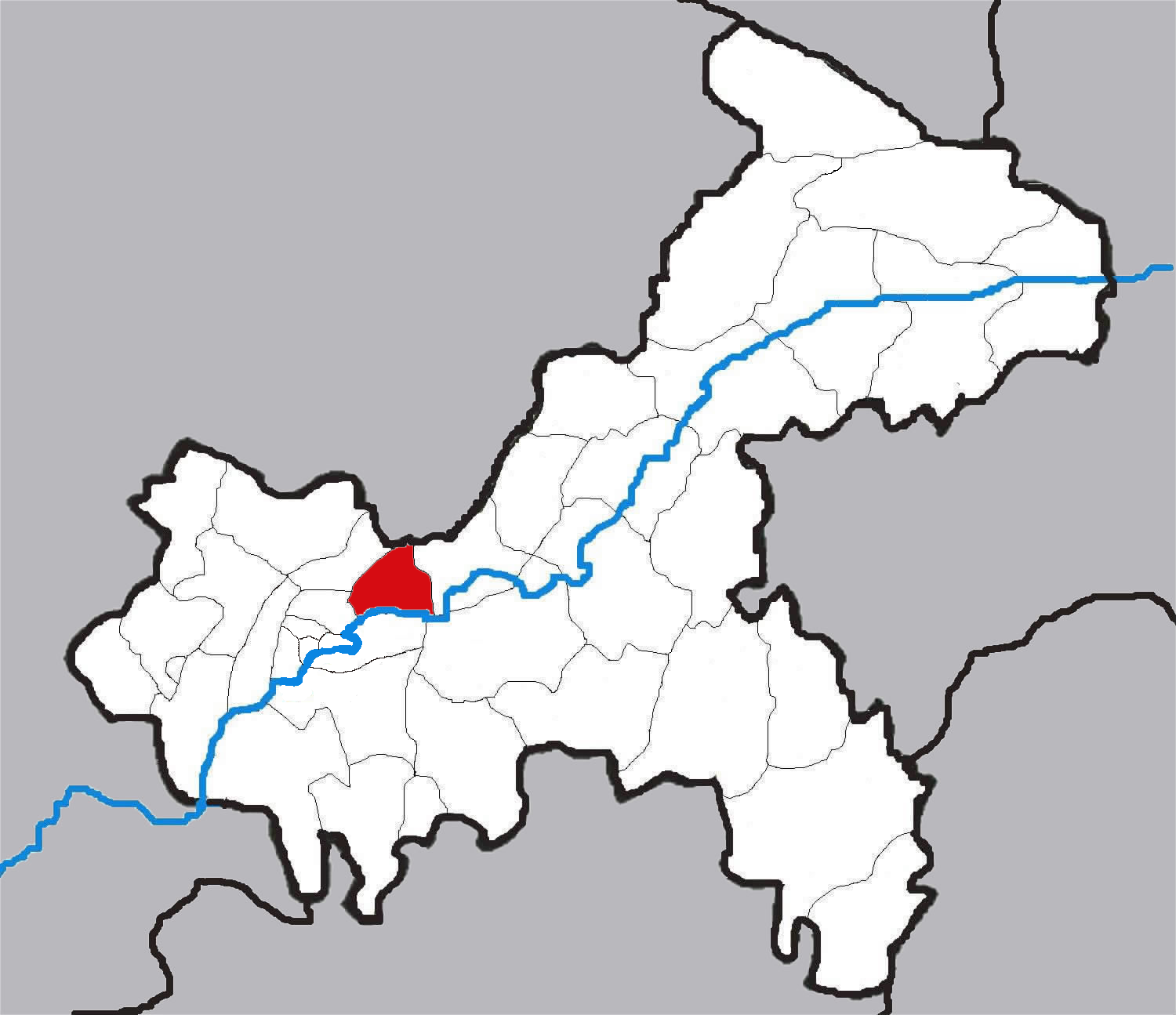 Administration maps of Chongqing, China